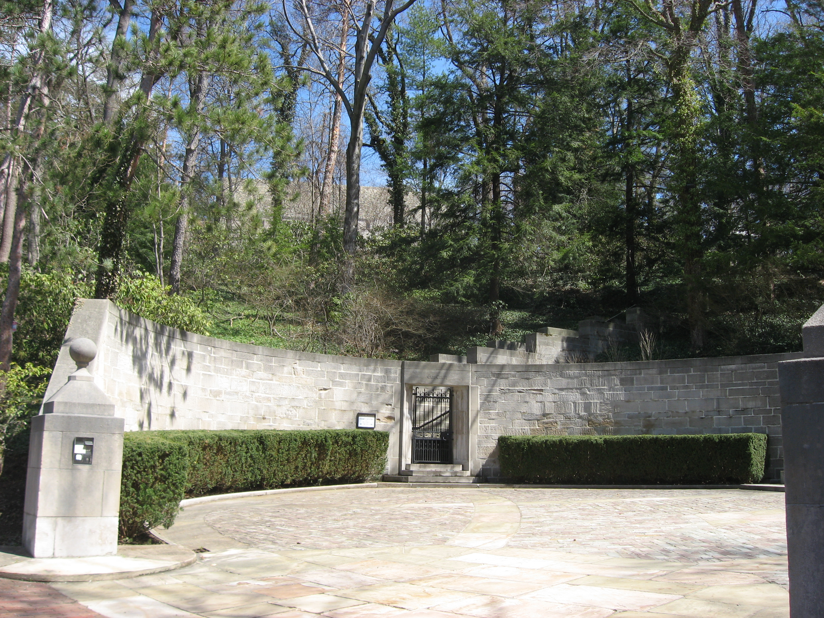 Streetside courtyard at Elm Court, a house located off E. Elm Street in Butler, Butler County, Pennsylvania, United States. The house's roof is dimly visible through the trees above the gate; many signs along its fences make it obvious that photographers are not welcome past the street without permission. Built in 1929, the house is listed on the National Register of Historic Places.